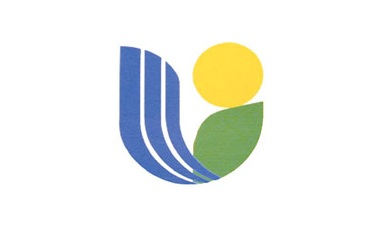 Flag of Uchiko Ehime